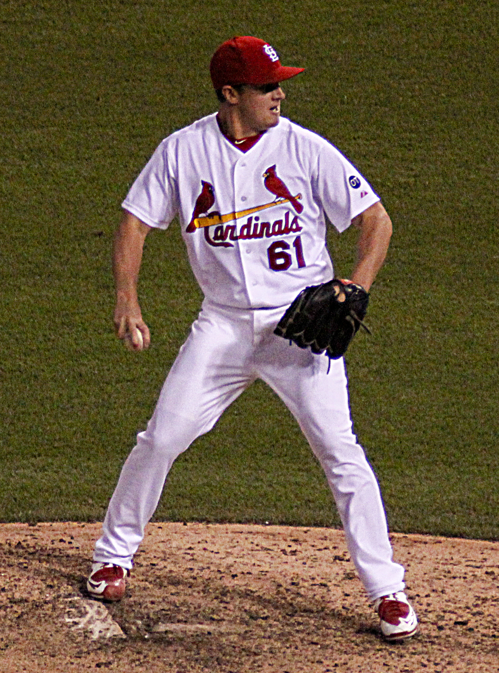 Seth Mannes of the Cardinals 2015